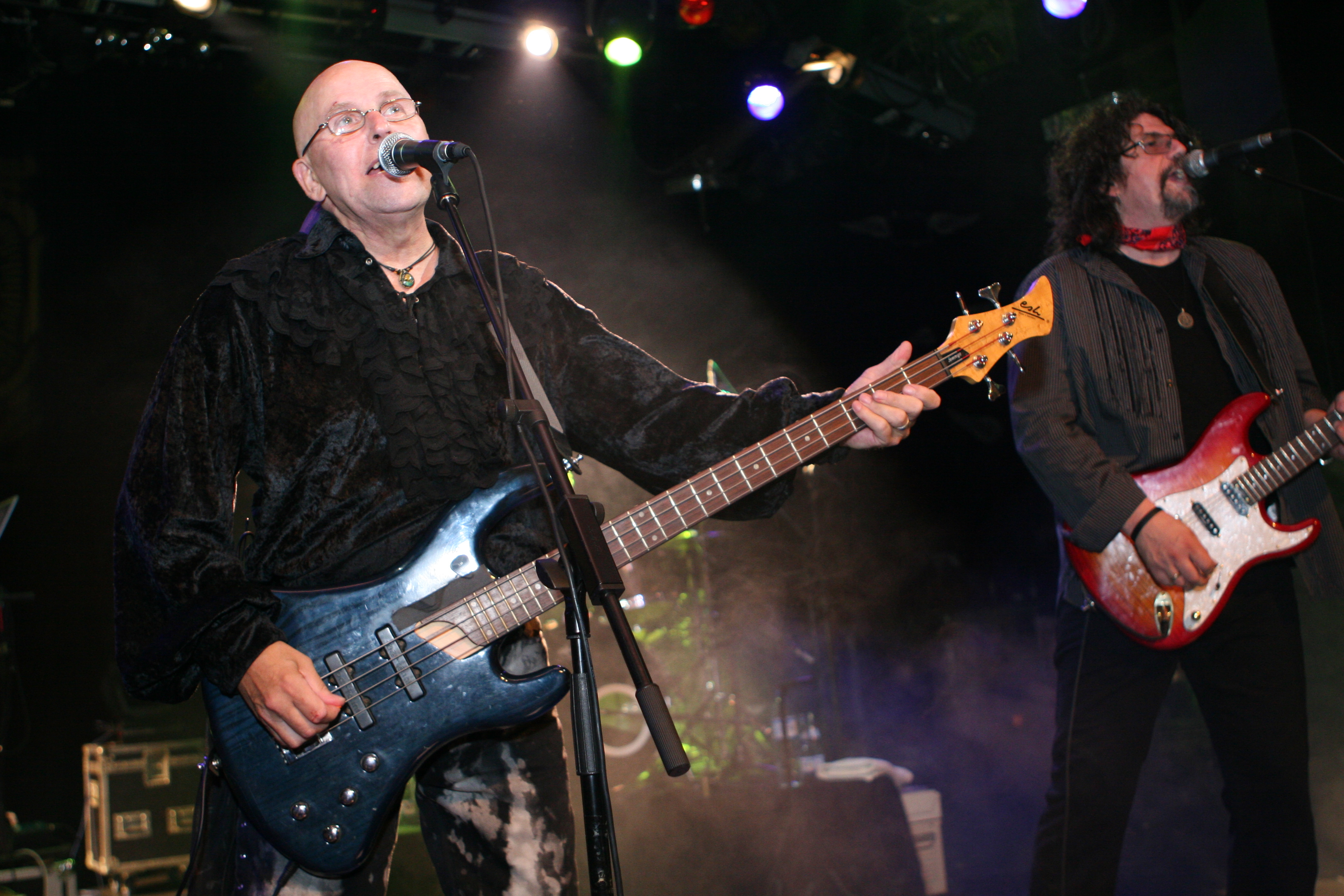 Kelly Groucutt, Phil Bates